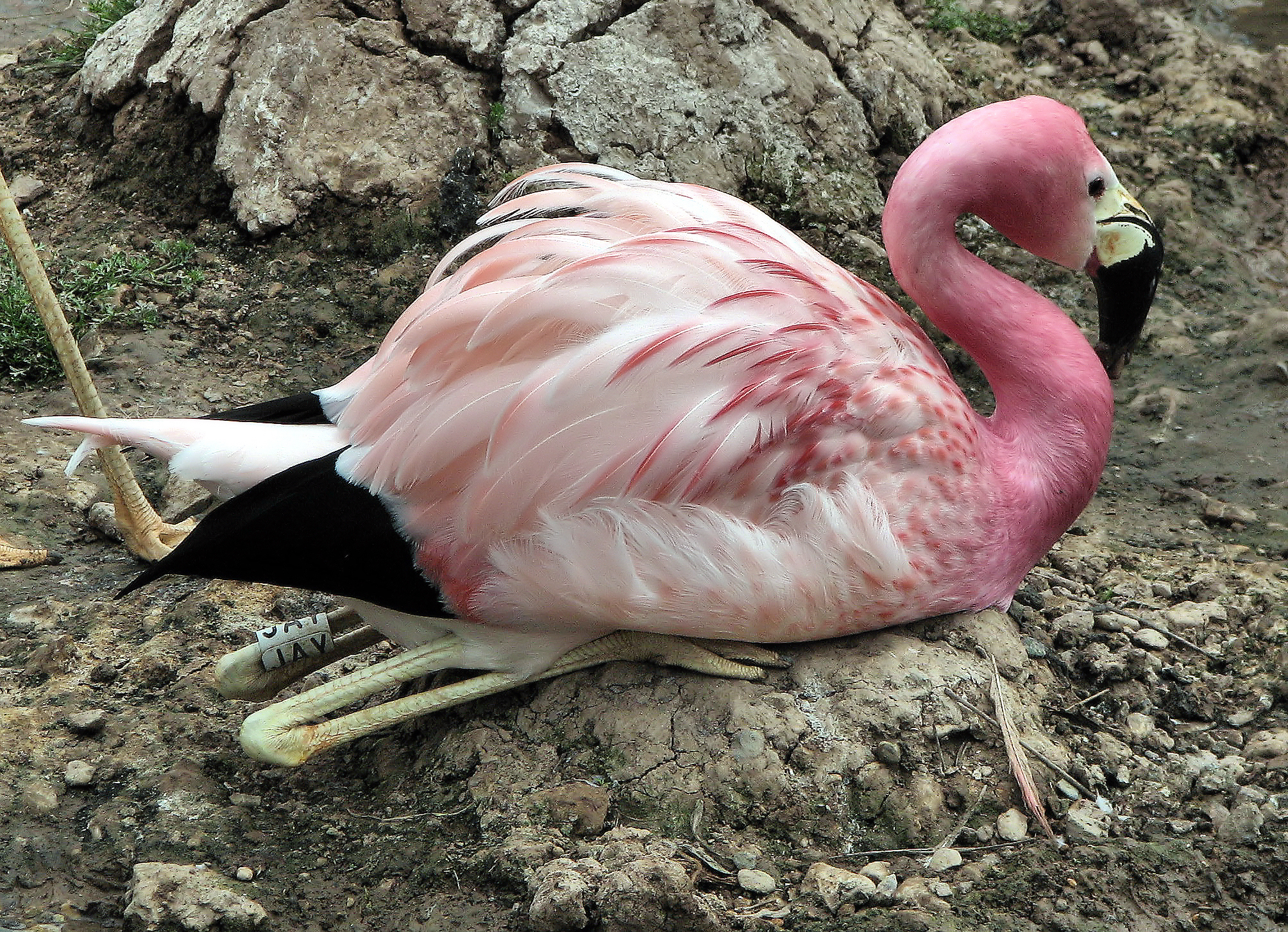 Andean Flamingo at Slimbridge Wildfowl and Wetlands Trust, Gloucestershire, England.